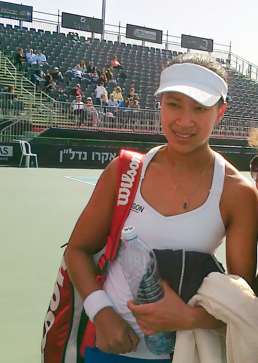 Anne Keothavong at Fed Cup, Eilat, Israel 2013